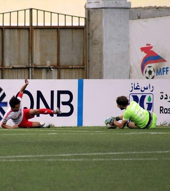 Giacomo catch the ball against striker